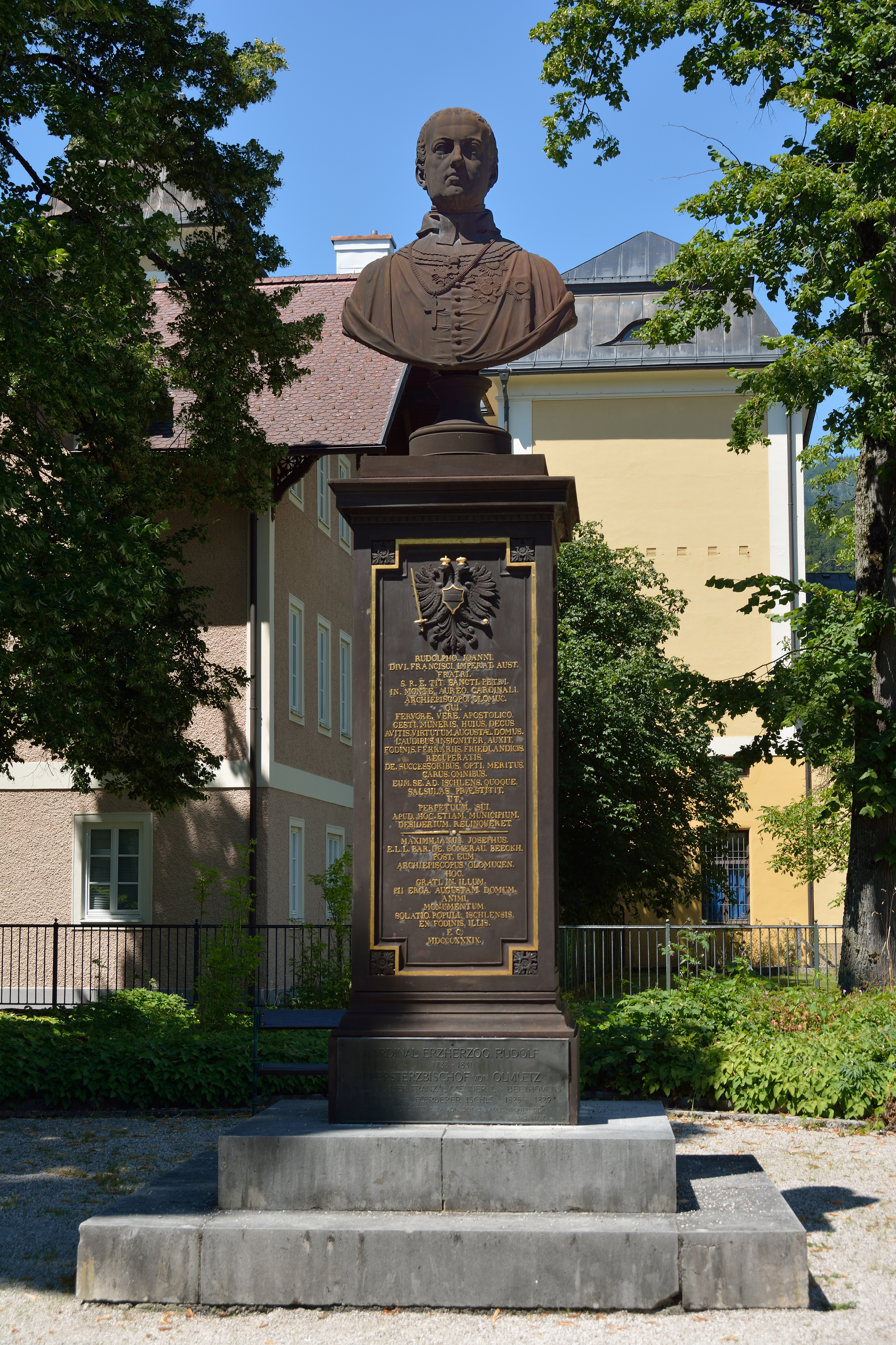 Memorial to Rudolf of Austria, Bahnhofstraße 1, Bad Ischl, Upper Austria